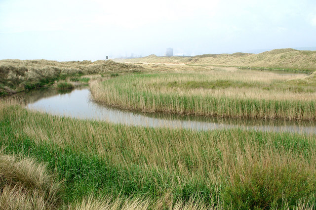 Reeds near the mouth of the Afon Cynffig Looking north west over the westernmost part of a large area of reeds alongside the Afon Cynffig which extends for approximately 1 km eastwards of this point. Port Talbot steelworks can be seen in the distance. The picture was taken from just inside the neighbouring square SS7883.